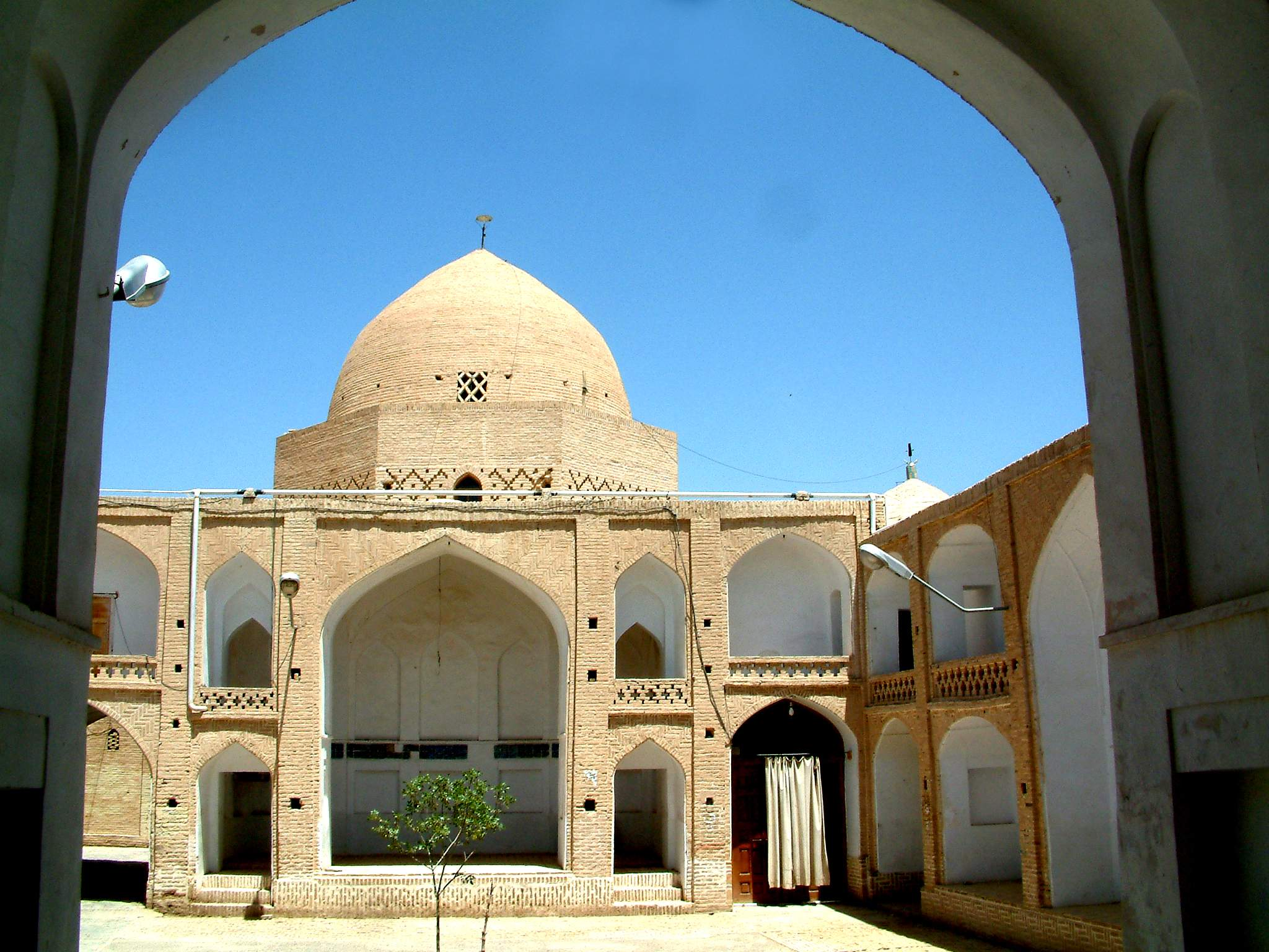 darmasjed neighborhood